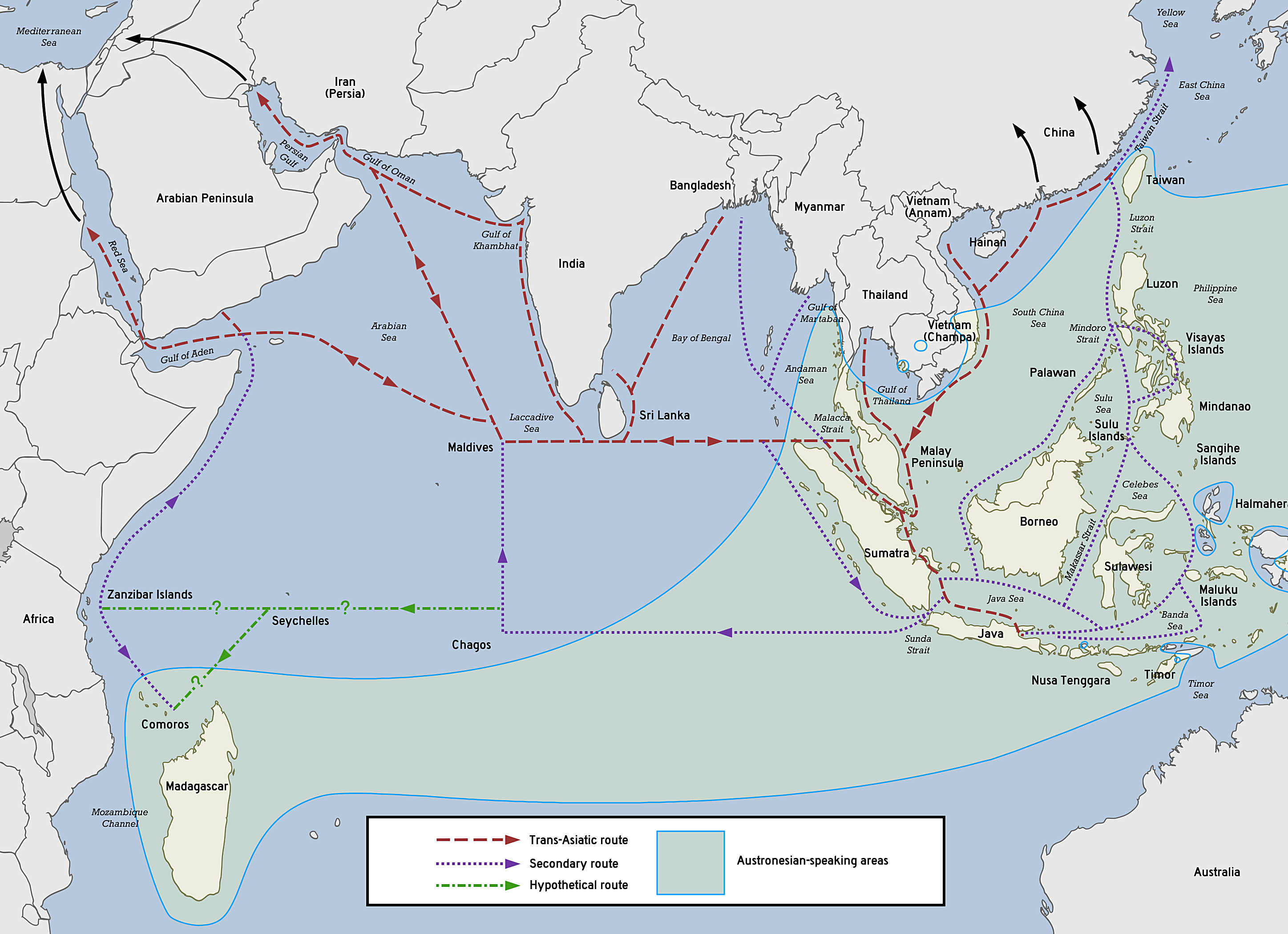 Porot-historic and historic maritime trade network of the Austronesian peoples in the Indian Ocean per "Austronesian Shipping in the Indian Ocean: From Outrigger Boats to Trading Ships" in (2016) Early Exchange between Africa and the Wider Indian Ocean World, Palgrave Macmillan, pp. 51-76 ISBN: 9783319338224.